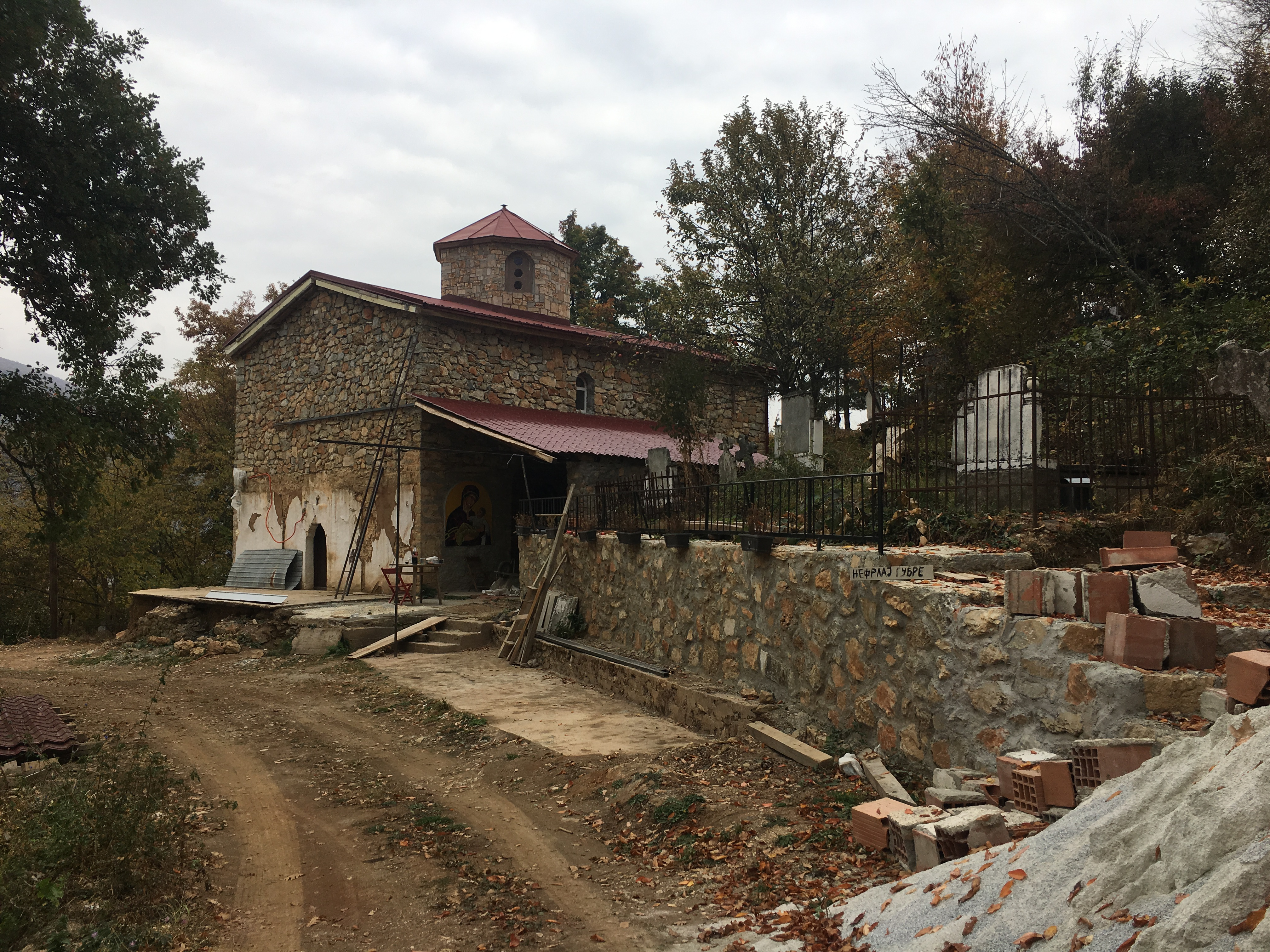 Wikiexpedition to Kopačka